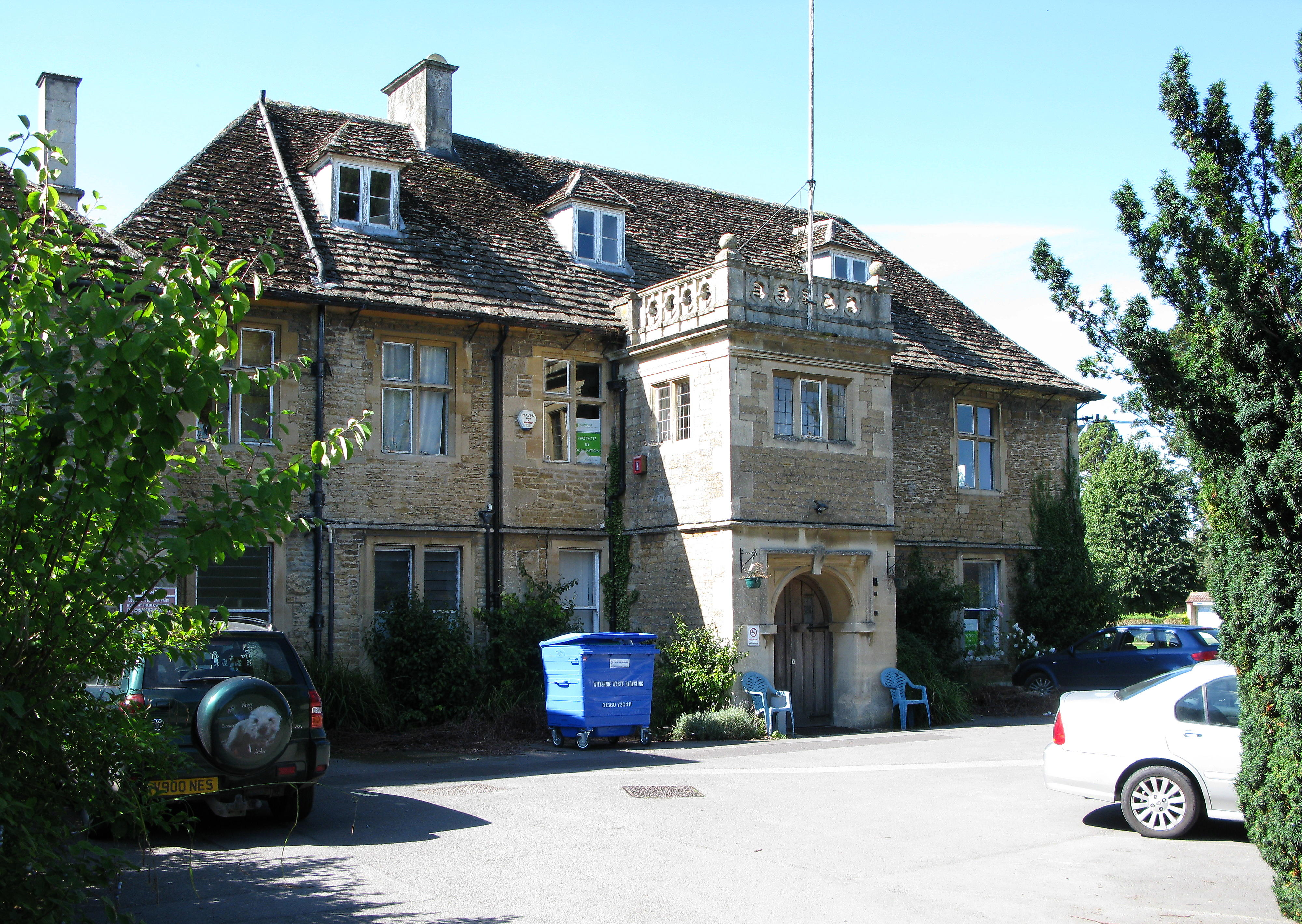 Facade of Melksham House, Melksham